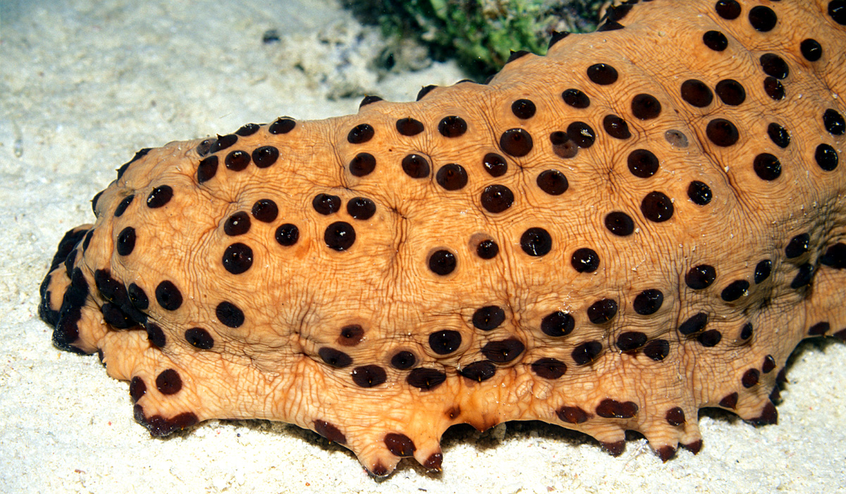 This Three-Rowed Sea Cucumber (Isostichopus badionotus)